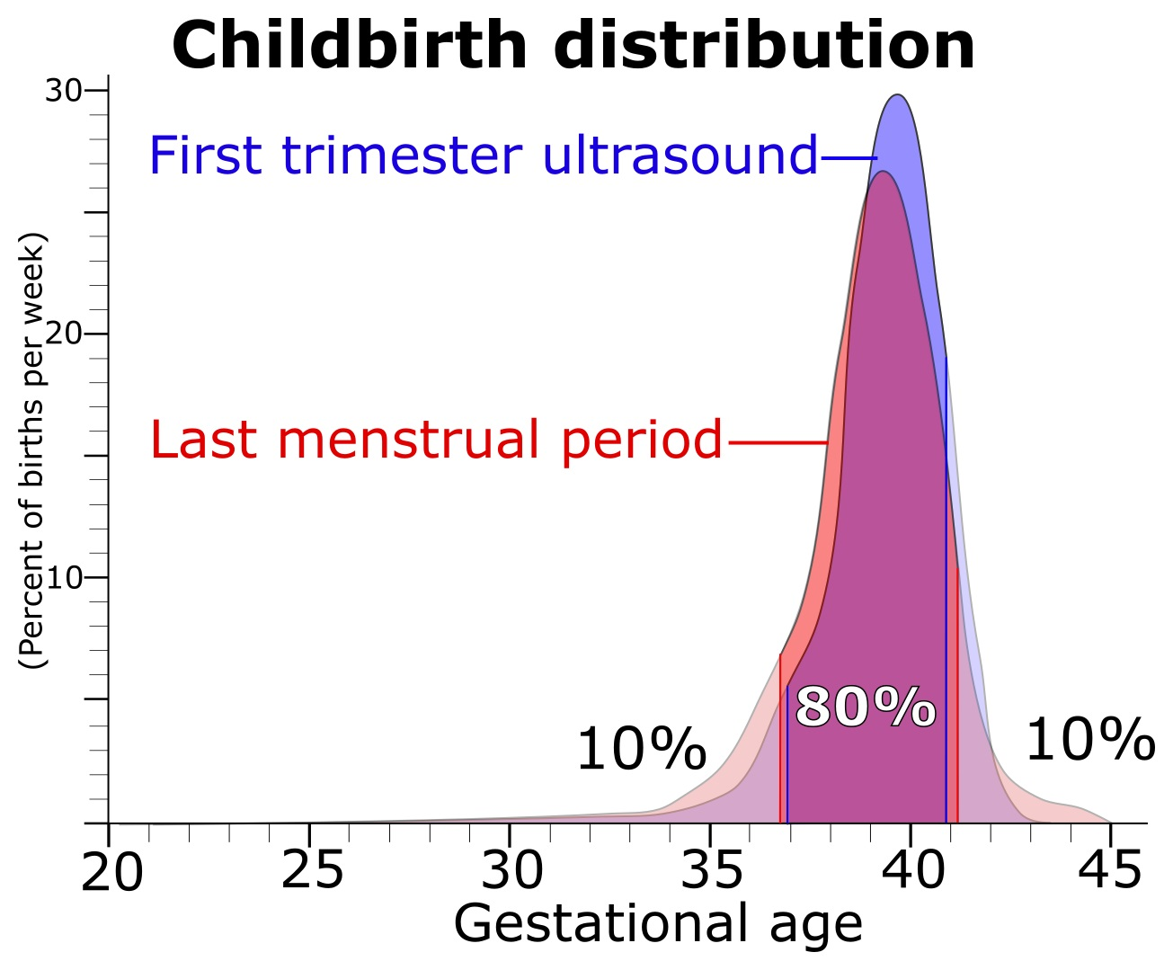 Distribution of gestational age at childbirth among singleton live births in the United States, given both when gestational age is estimated by first trimester ultrasound and directly by last menstrual period. About 80% of childbirths occur between 37 and 41 weeks of gestational age, with a somewhat more narrow span when based on first trimester ultrasound. Adapted from data of the following study: (2008). "Comparison of gestational age at birth based on last menstrual period and ultrasound during the first trimester". Paediatric and Perinatal Epidemiology 22 (6): 587–596. ISSN 02695022.